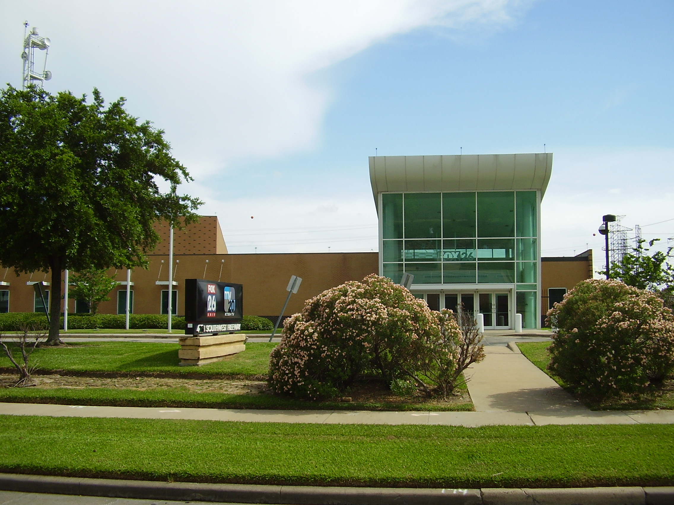 Station for KRIV (Fox 26) and KTXH (My20) in Houston